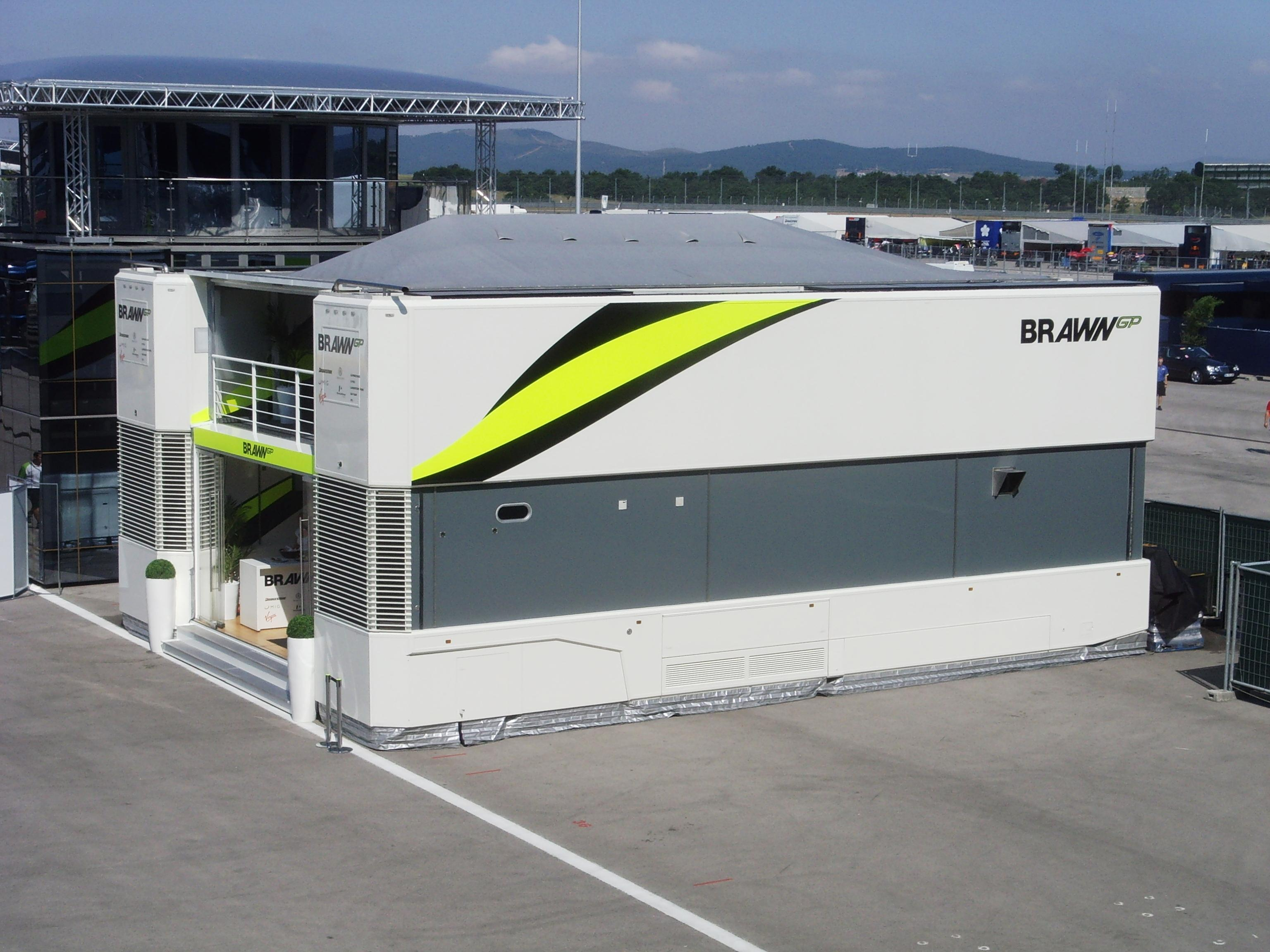 Motorhome of Brawn GP on Istanbul Park's paddock during 2009 Turkish Grand Prix weekend.